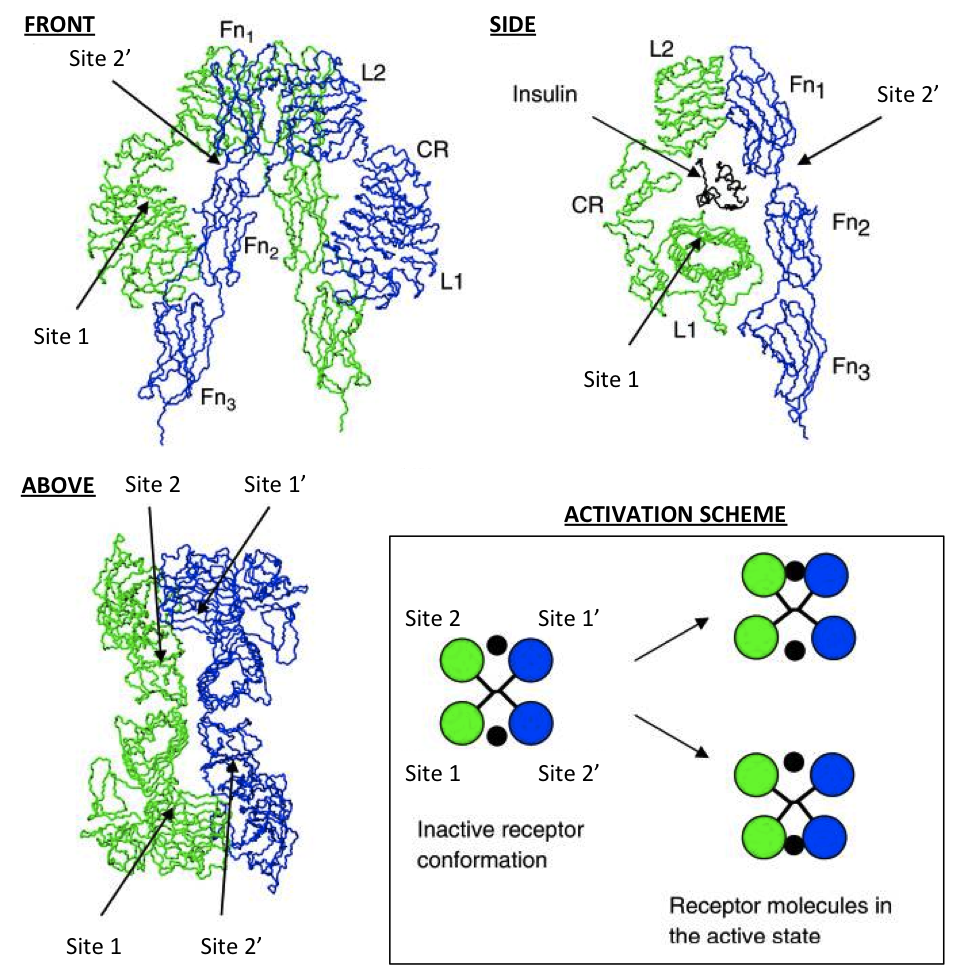 Depiction of the insulin receptor ectodomain (PDB 3LOH) and putative binding sites on the first (green) and second (blue) monomer alpha chains as well as a schematic representation of receptor activation via crosslinking of binding sites. Modified from "Harmonic oscillator model of the insulin and IGF1 receptors' allosteric binding and activation" under the Creative Commons Attribution Licence.